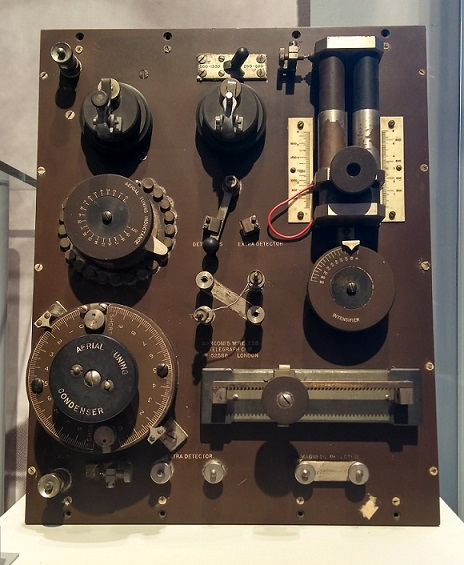 A Marconi Crystal Receiver, Mark III. It was known as a 'Cat's Whisker receiver', and used on the ground to receive signals from aeroplanes during the First World War. This one is displayed at Porthcurno Telegraph Museum, Cornwall (January 2019).